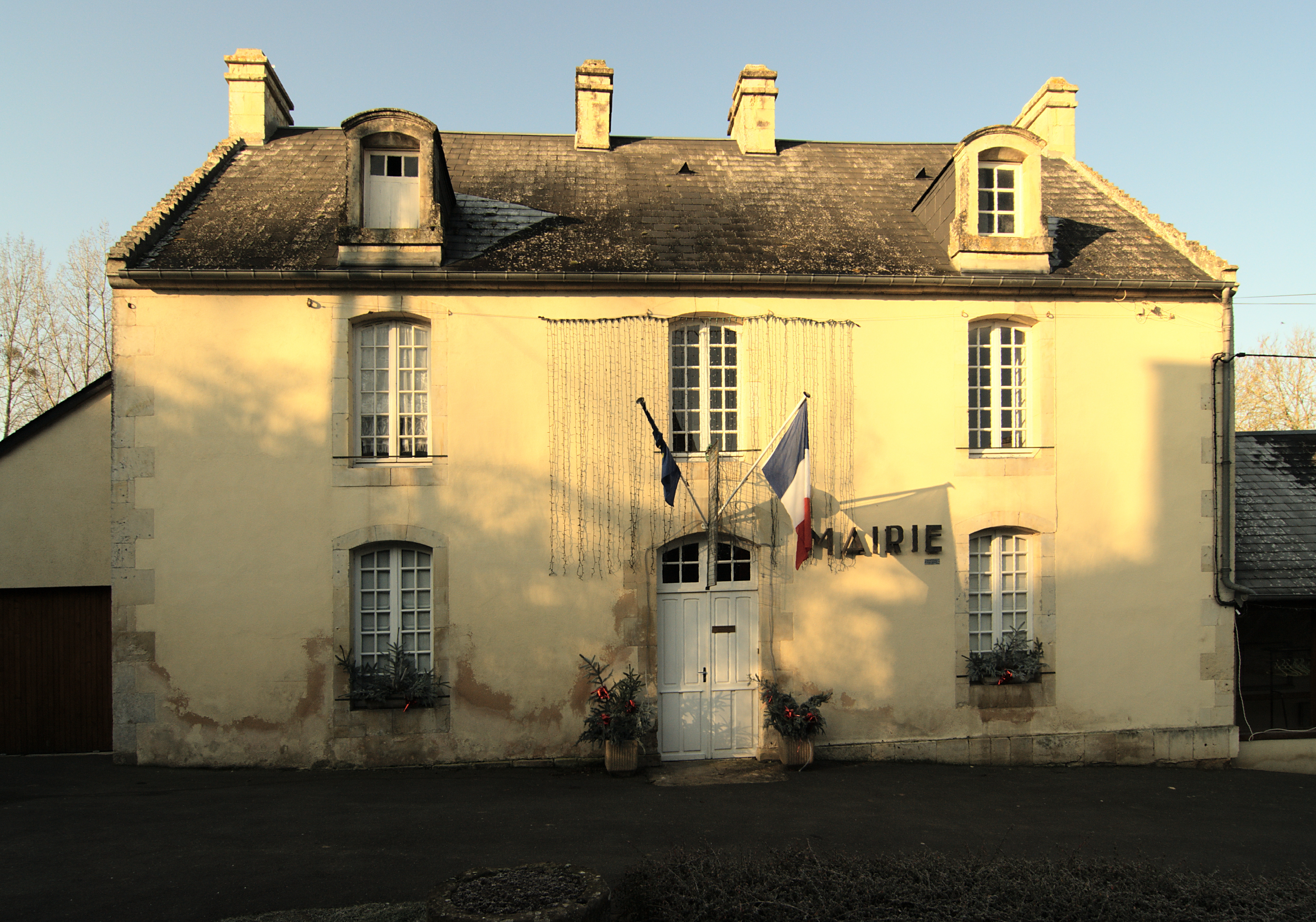 The Town hall of The Moutiers-en-Cinglais village.